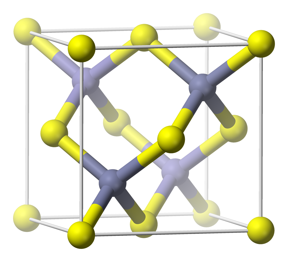 Yellow balls are zinc and violet balls are sulphur in pure sphlareite crystal lattice unit cells.